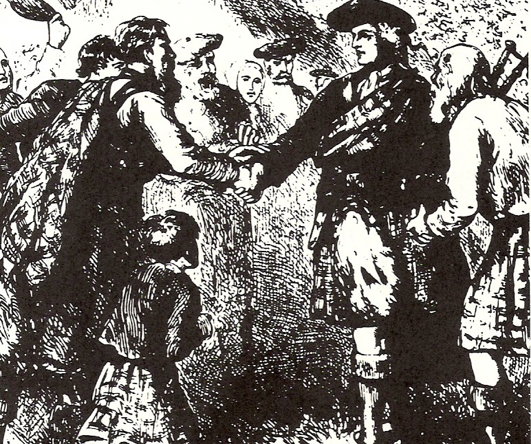 Drawing of General James Oglethorpe greeting Scottish Highlanders in Darien on February 22, 1736.